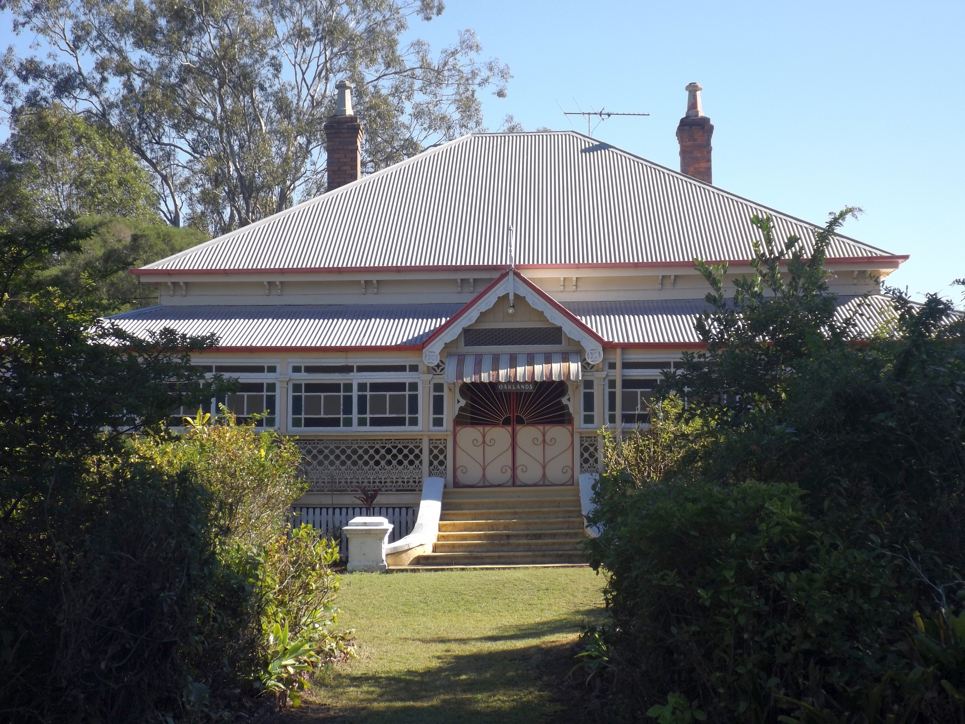 Photo of Oaklands, part of the Wright Family Houses at 100 Mt Crosby Road Tivoli, Ipswich Queensland, Australia.